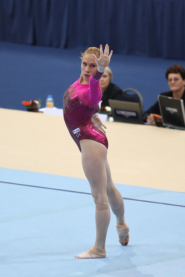 Ksenia Afanasyeva, a Russian artistic gymnast, performing during a floor routine in 2010.